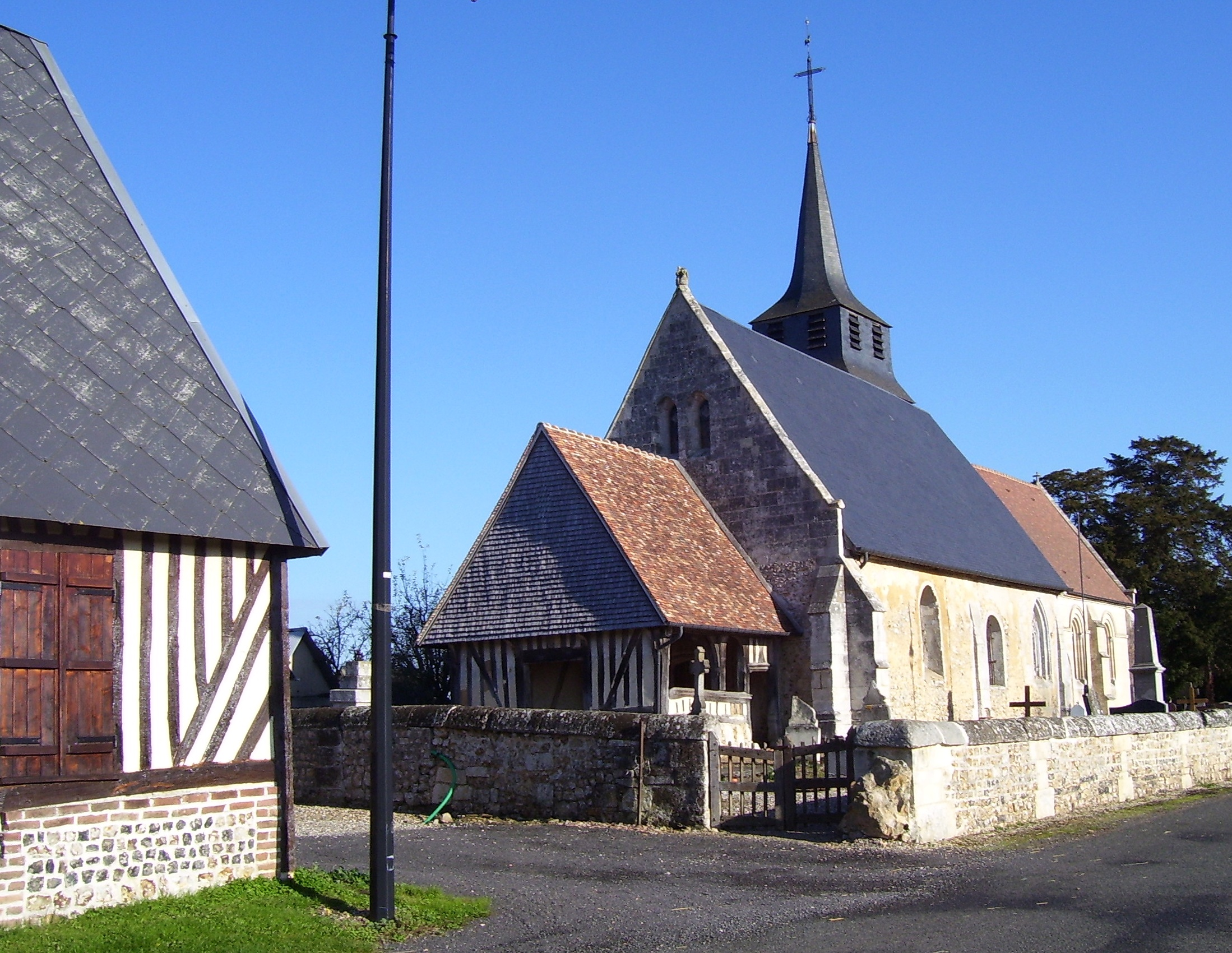 The church Saint-Cyr-et-Sainte-Julitte of Saint-Cyr-de-Salerne in the département Eure in Normandie, France. It was built in the 15th century and partially reconstructed in the 16th century. It is partially listed as Monument historique and the site of church, cemetery and yew trees is classified as site classé (natural monument).